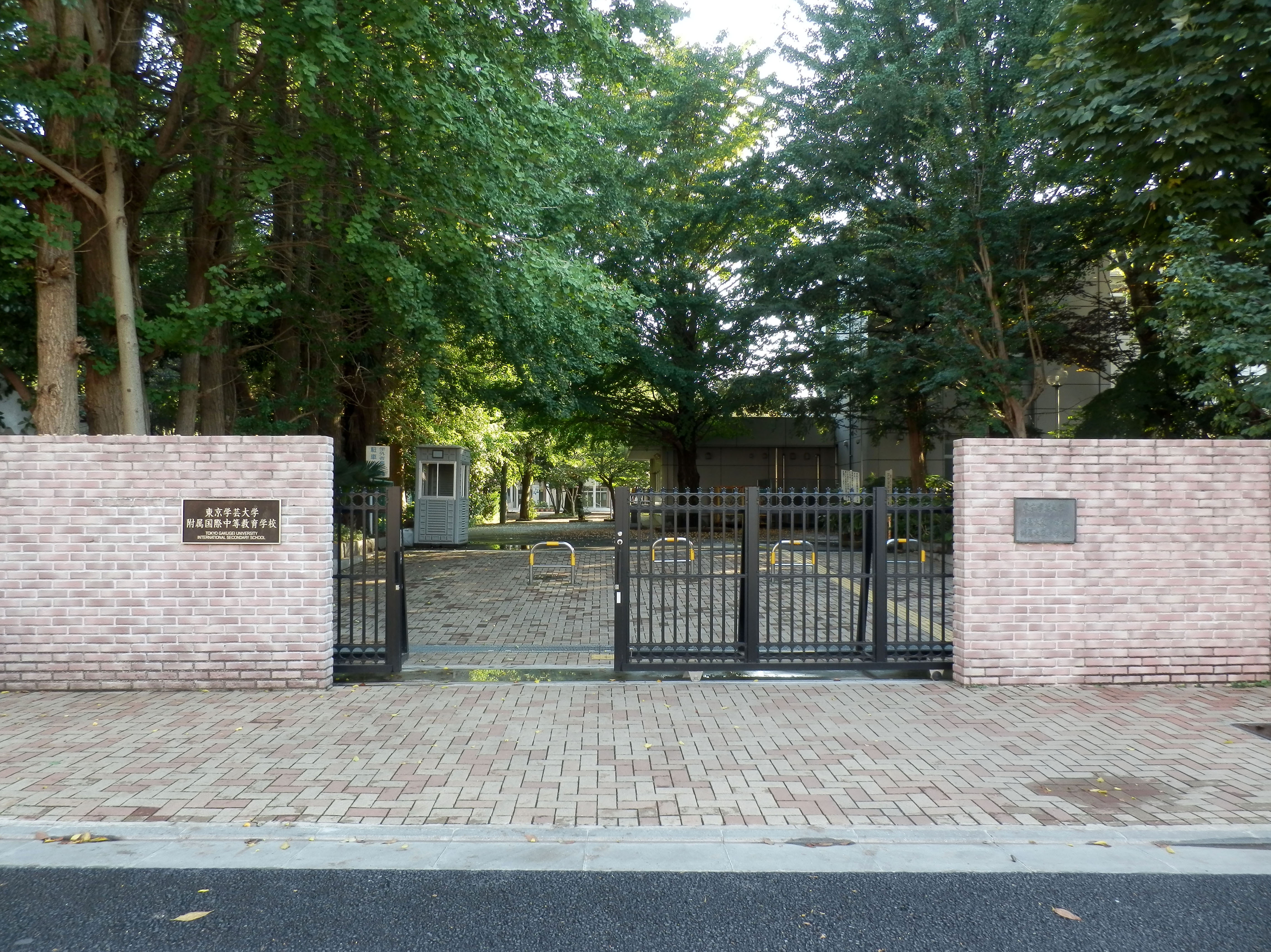 Oizumi Elementary School attached to Tokyo Gakugei University, Tokyo Gakugei University International Secondary School